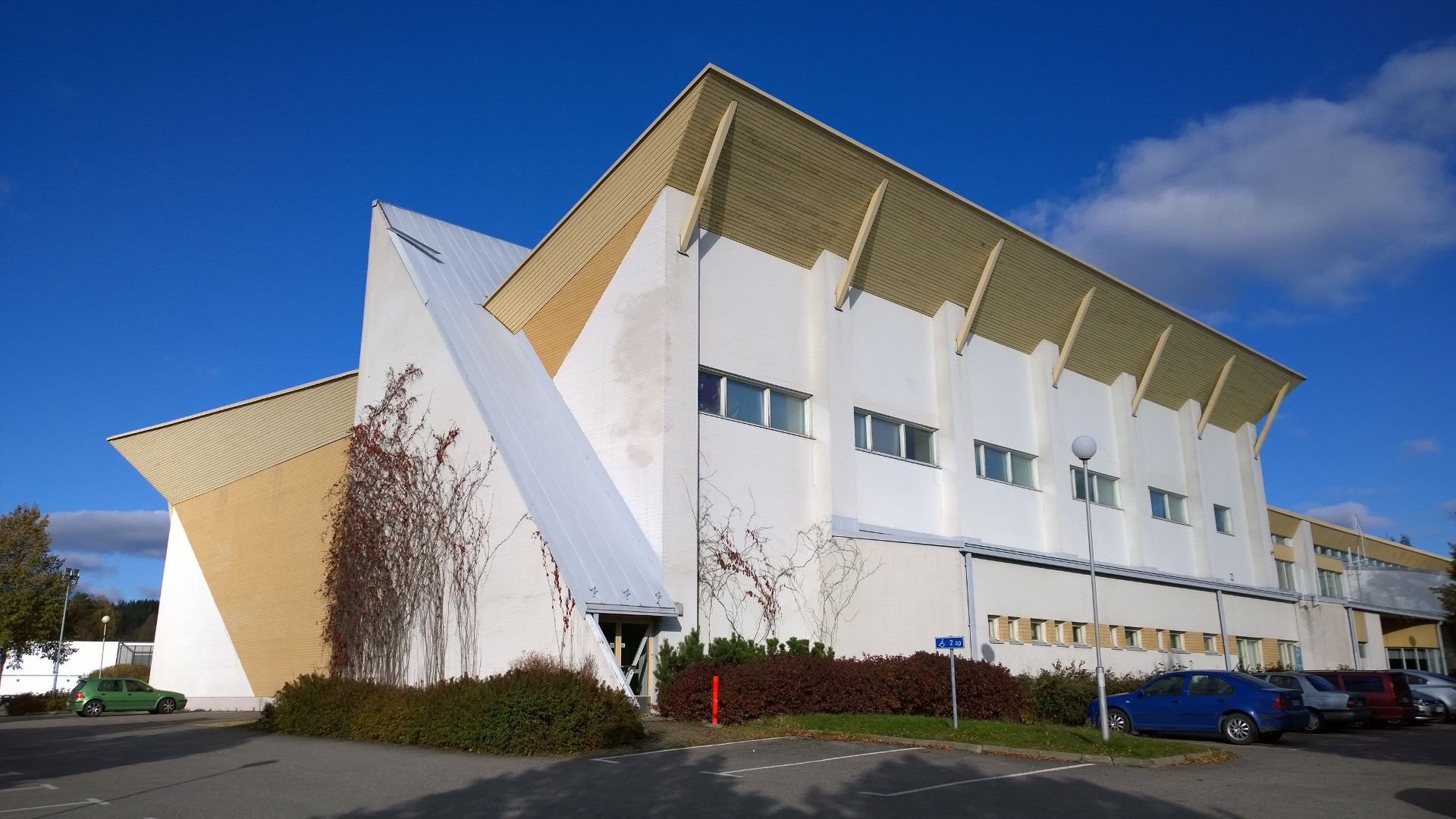 Orivesi sport arena. Built 1988. Architect Olavi Noronen [1]